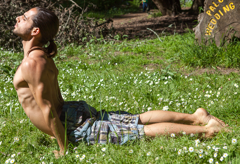 A man performs the yoga pose upward-facing dog (Ūrdhva mukha śvānāsana) outdoors.